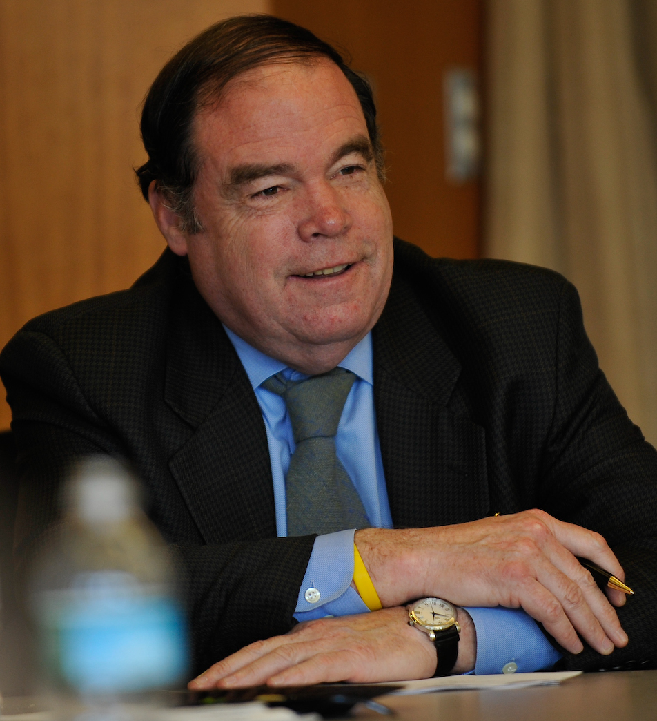 Tom Birmingham at a roundtable on "Managing the State's Budget - Hard Choices in an Economic Crisis" organized by the Rappaport Center on 30 January 2009.